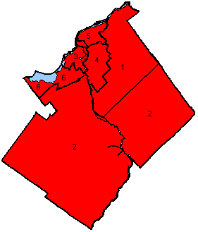 Results for Ottawa electoral districts in the 1997 federal election. Colours represent party of elected member - red (Liberal), blue (Progressive Conservative), green (Reform), orange (NDP), and grey (independent or other).